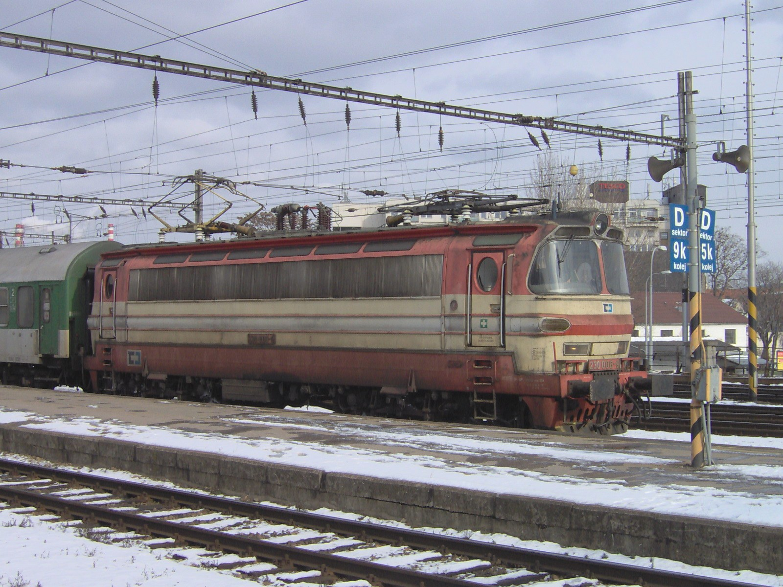 230.006 electric locomotive, Brno main station, Czech Republic